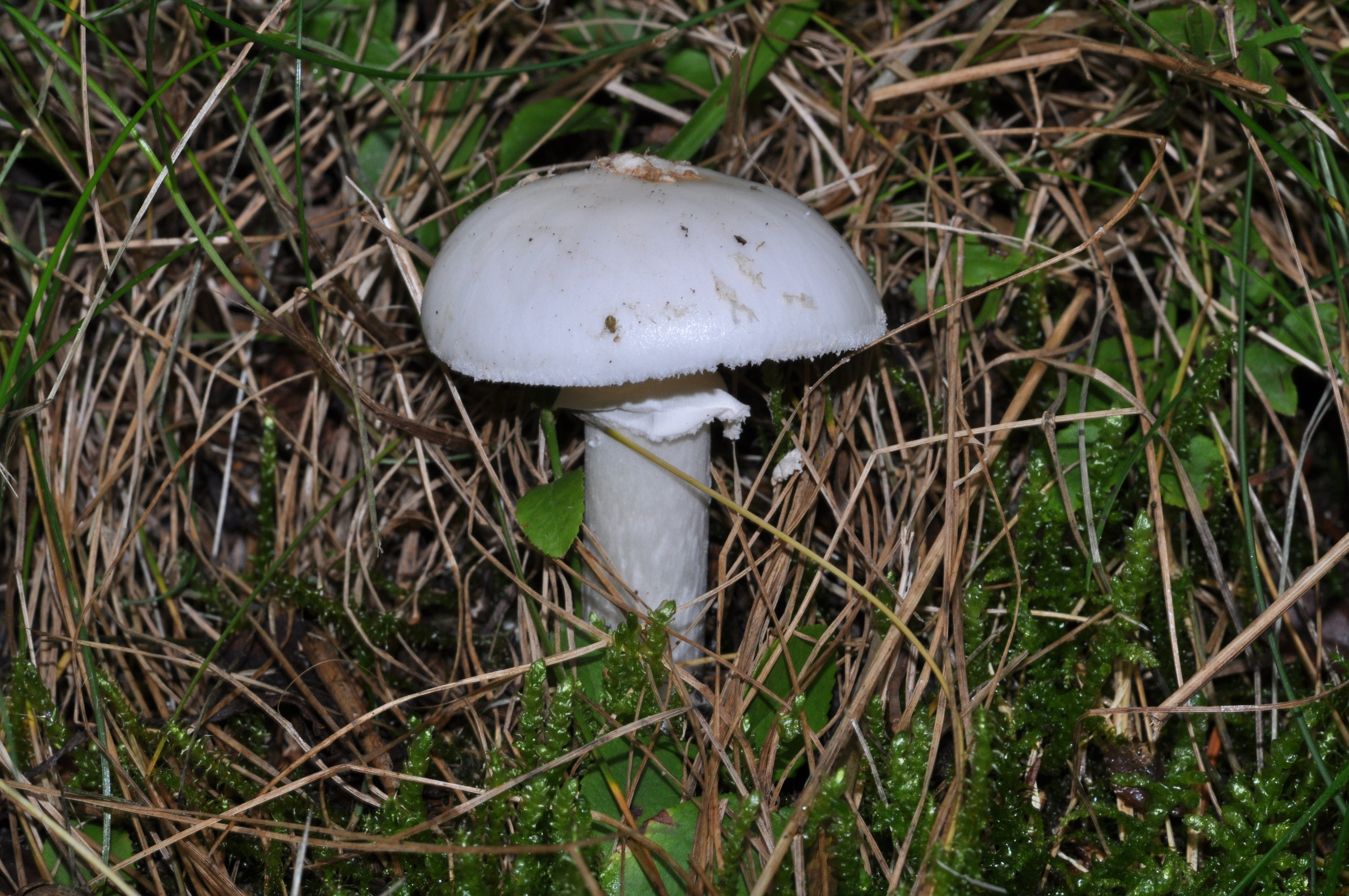 Destroying Angel (Amanita virosa) near Biggesee, Sauerland, Germany.